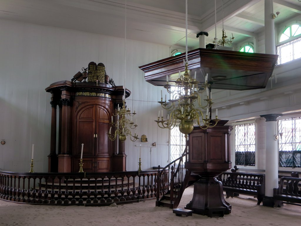 The wooden Torah ark, pulpit, and sandy floor are features of Neveh Shalom Synagogue in Paramaribo, Suriname.